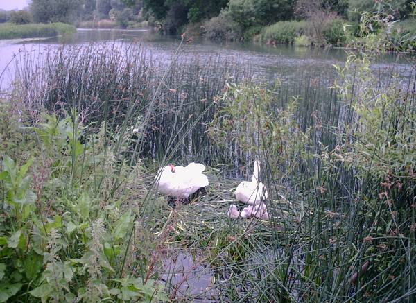 Swans nesting beside the River Great Ouse near St Neots, UK. I took this photo myself on 9th June 2002 and have placed this version in the public domain. Chris Jefferies 22:06, 18 Jun 2004 (UTC)